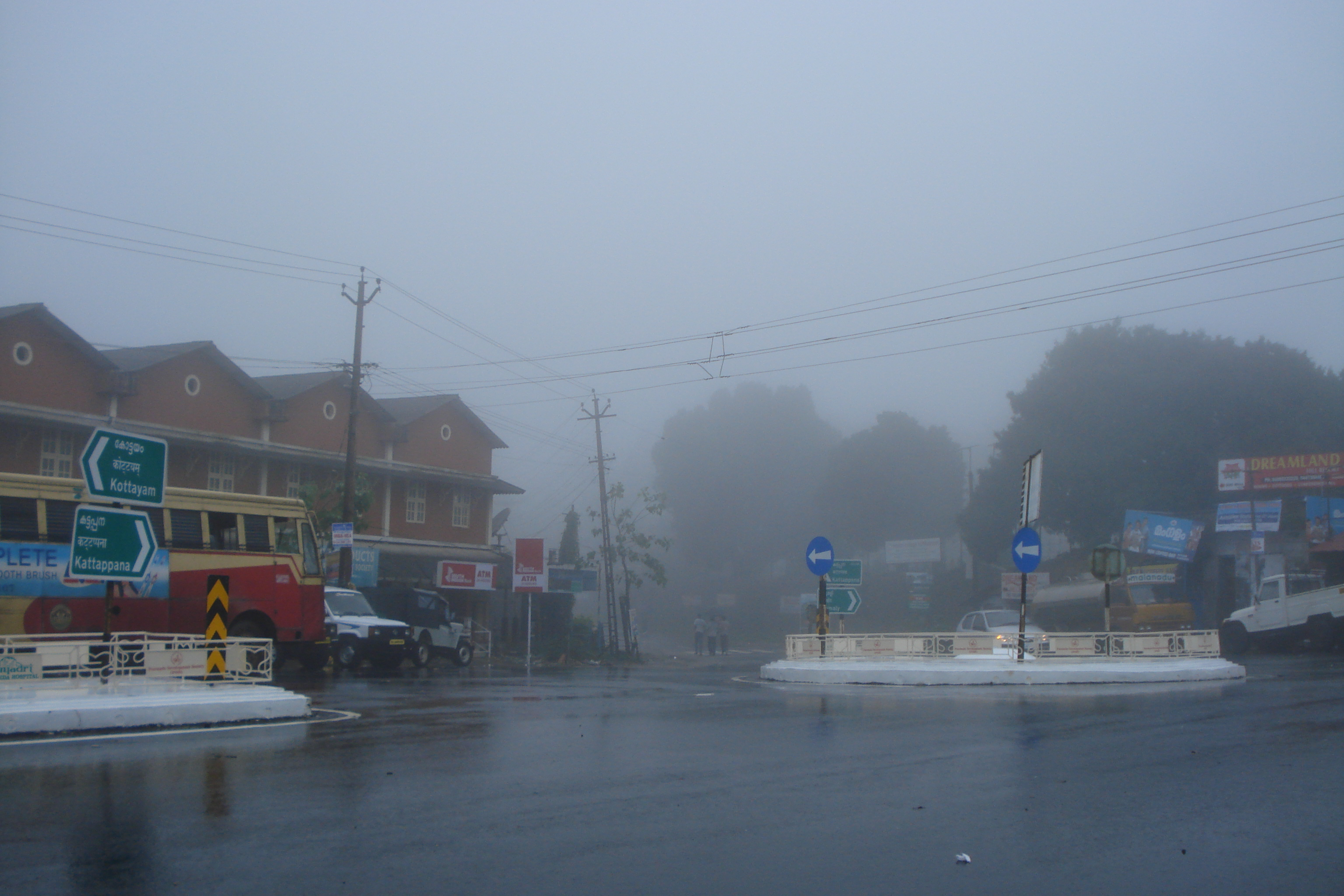 Kuttikkanam Junction idukki district